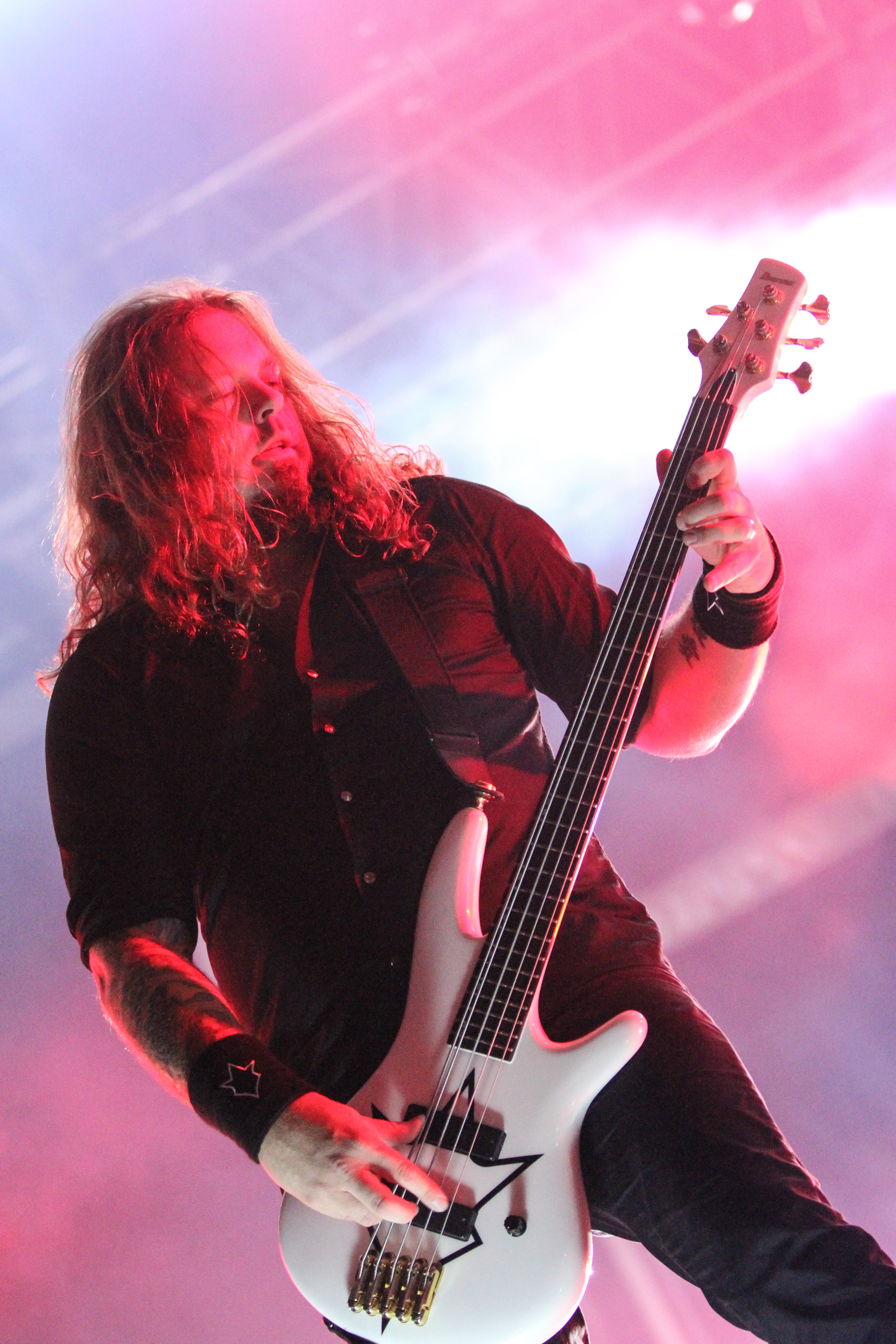 In Flames performing at With Full Force Festival 2013